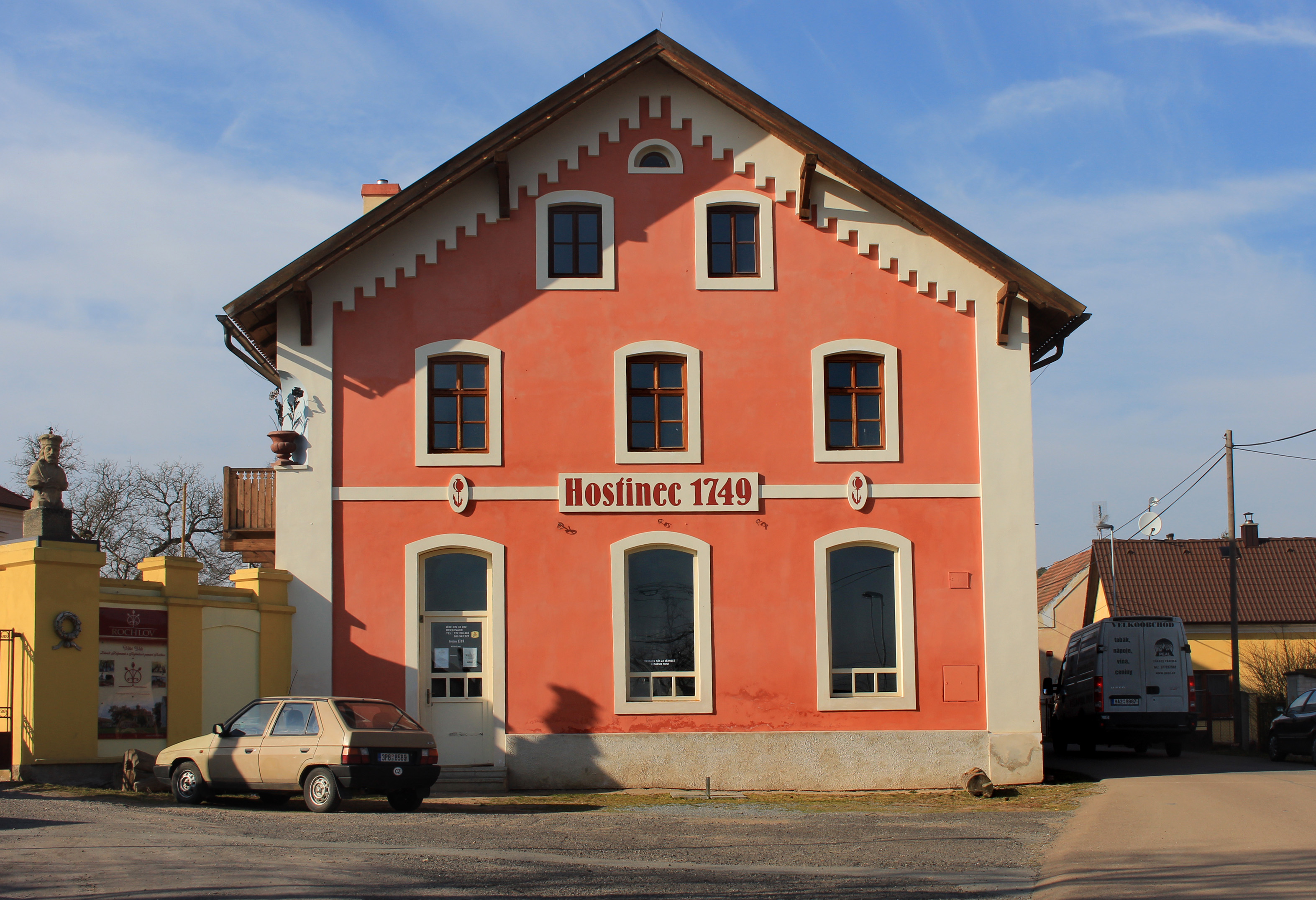 Restaurant in Rochlov, Czech Republic.